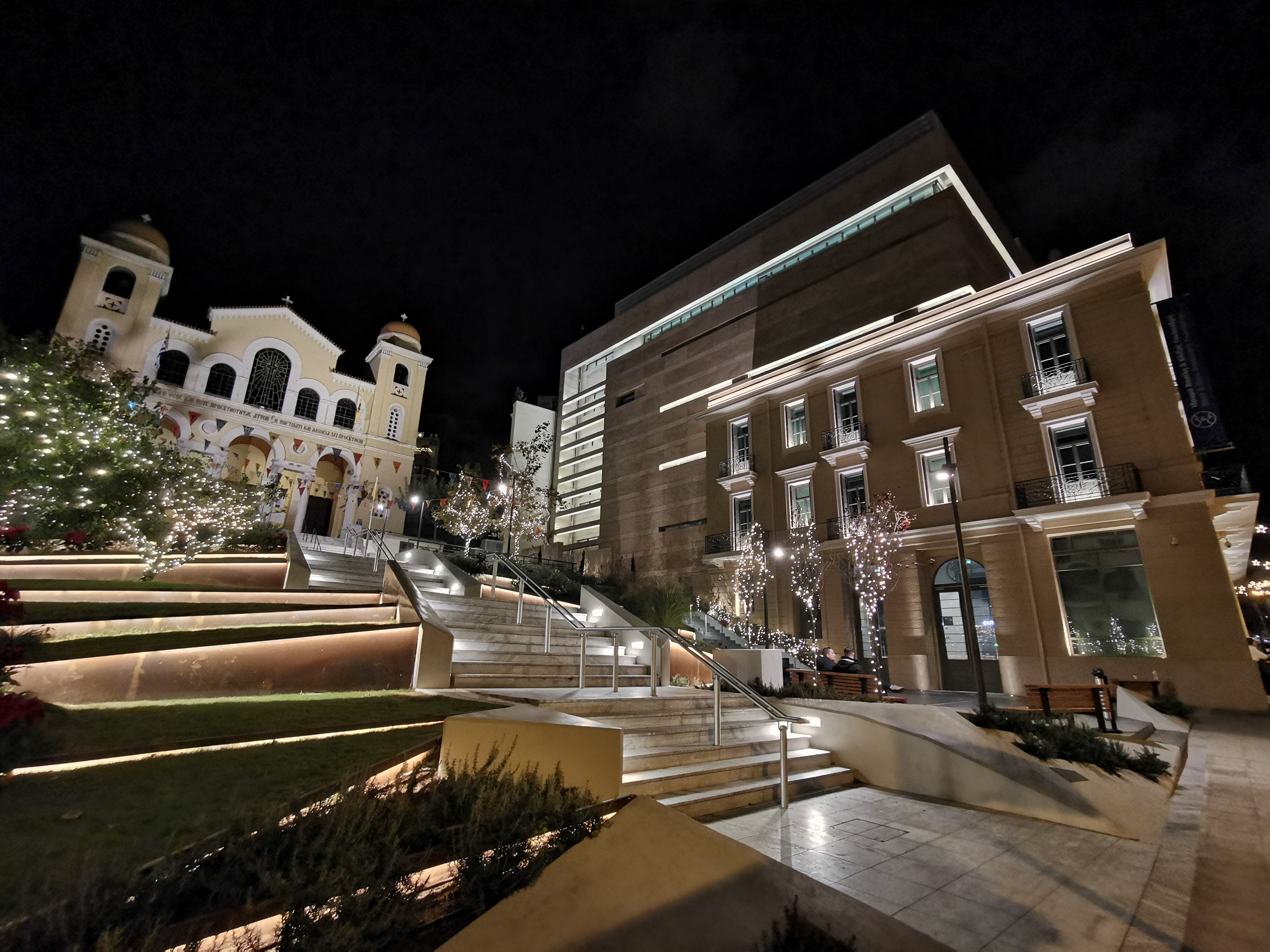 St. Spyridon Square at Pangrati, Athens, Greece. The square hosts the St. Spyridon Church as well as the Basil & Elise Goulandris Museum of Contemporary Art